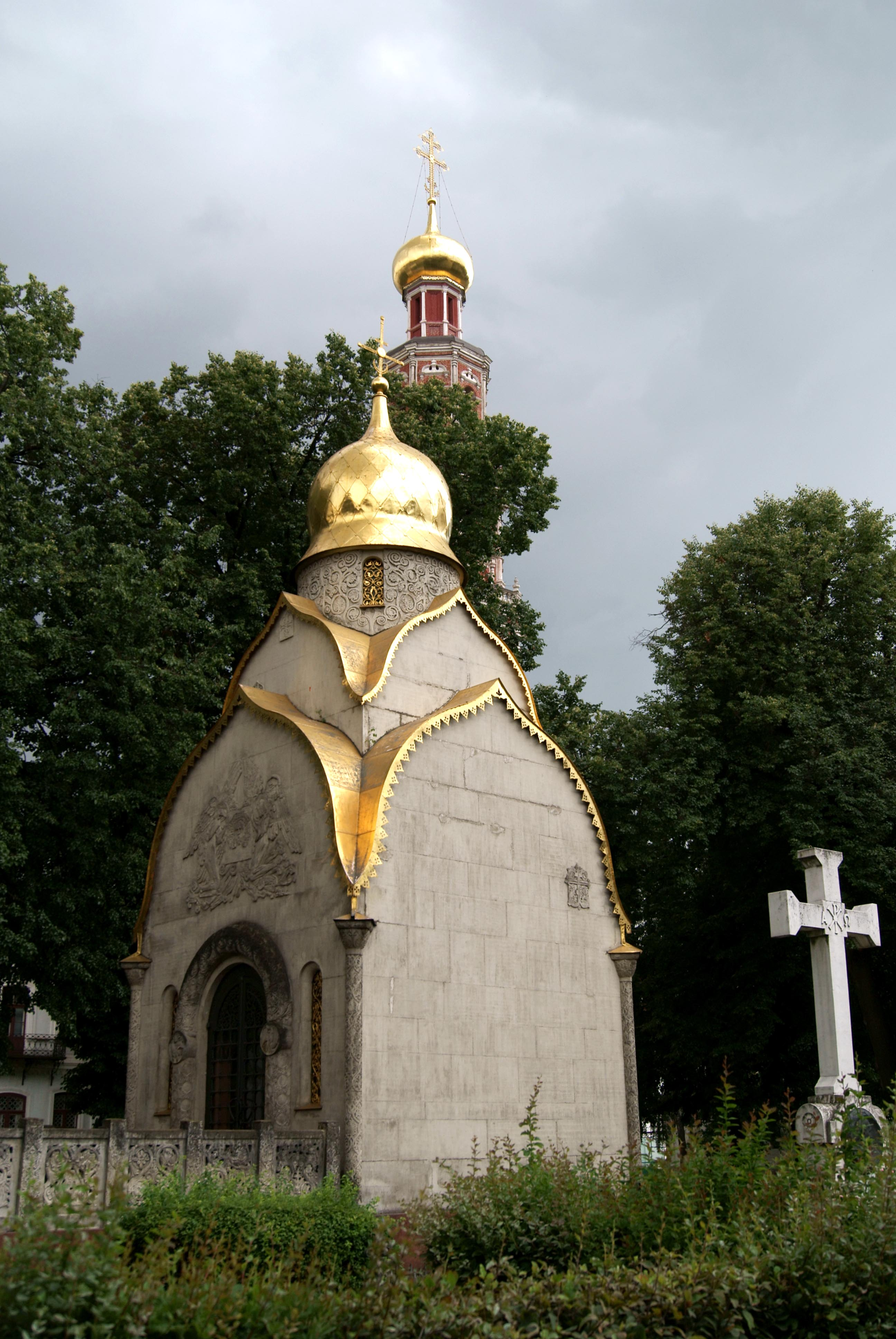 Tobmstone